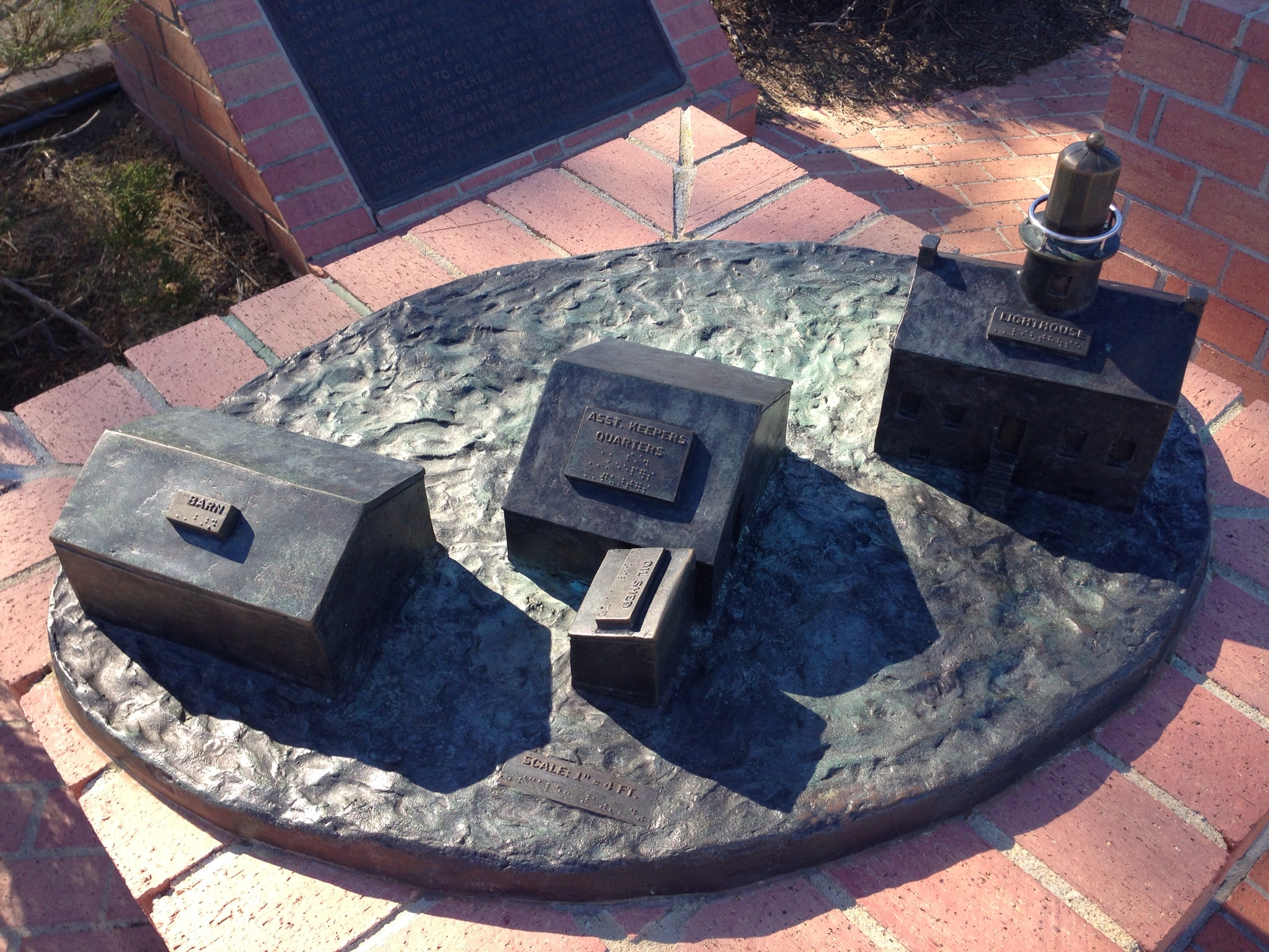 Model of the Old Point Loma Lighthouse with the nowadays missing barn